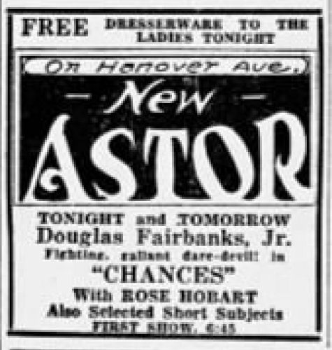 Astor Theater advertisement for the American war film Chances (1931) - 3 Dec. 1931 Morning Call, Allentown PA